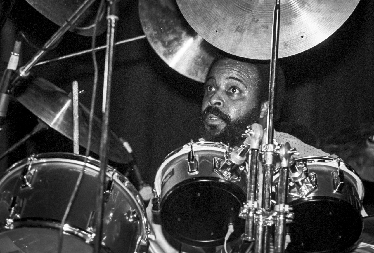 Stix Hooper, Drummer with The Crusaders - 1980 live on stage in Zurich, Switzerland